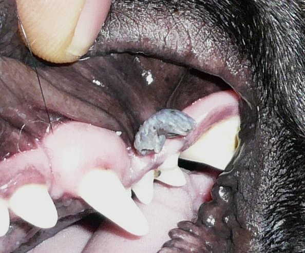 Viral papilloma in a young Pug, on the buccal mucosa.